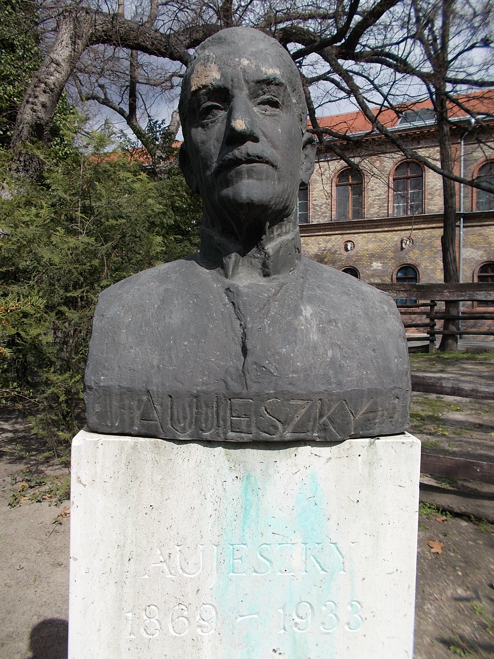 Bust of Aladár Aujeszky by Imre Veszprémi in the sculpture park of the University of Veterinary Science (UVS). - 2 István Street, Budapest District VII.